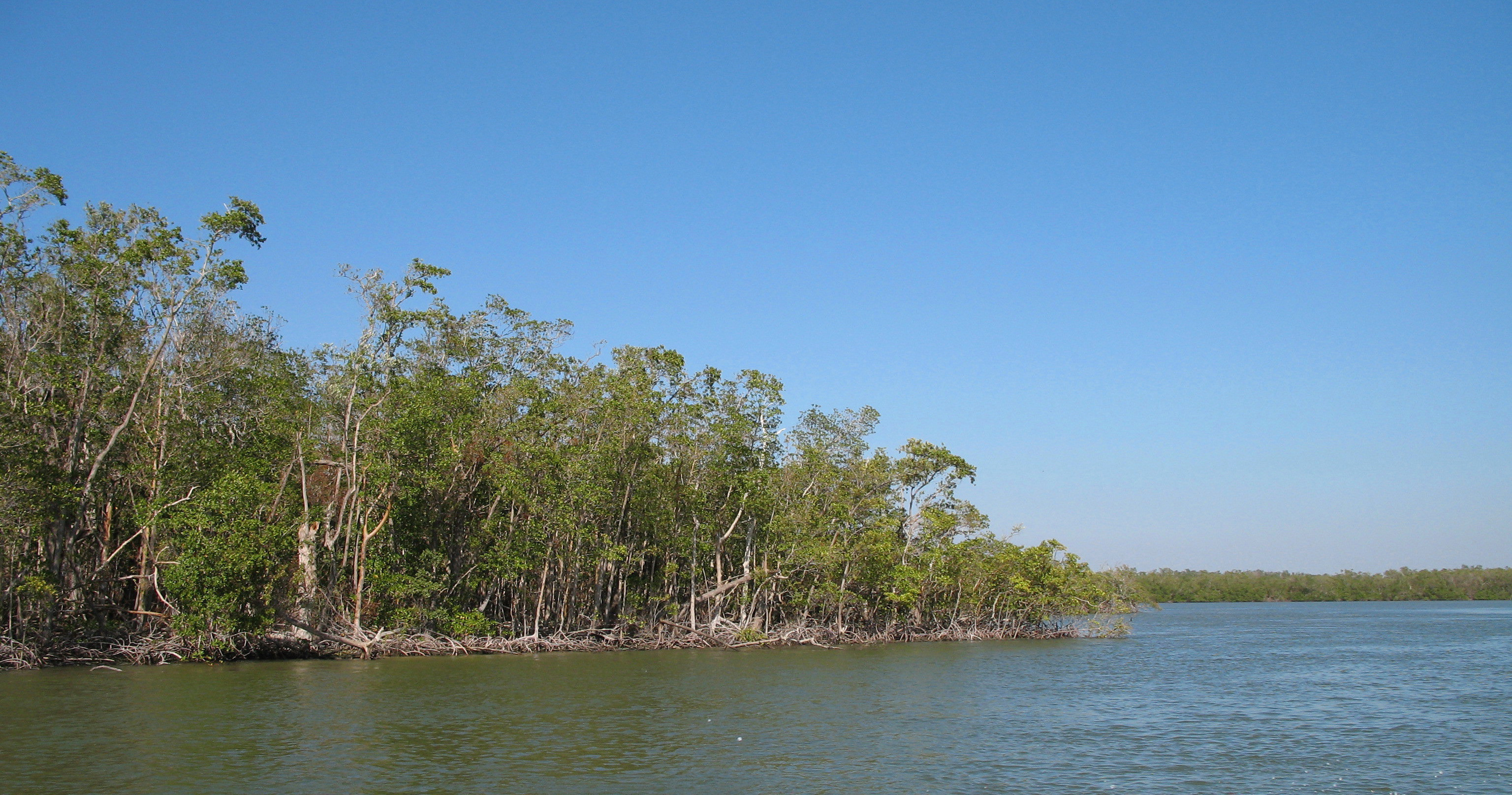 Everglades (Florida, U.S.A.): mangroves